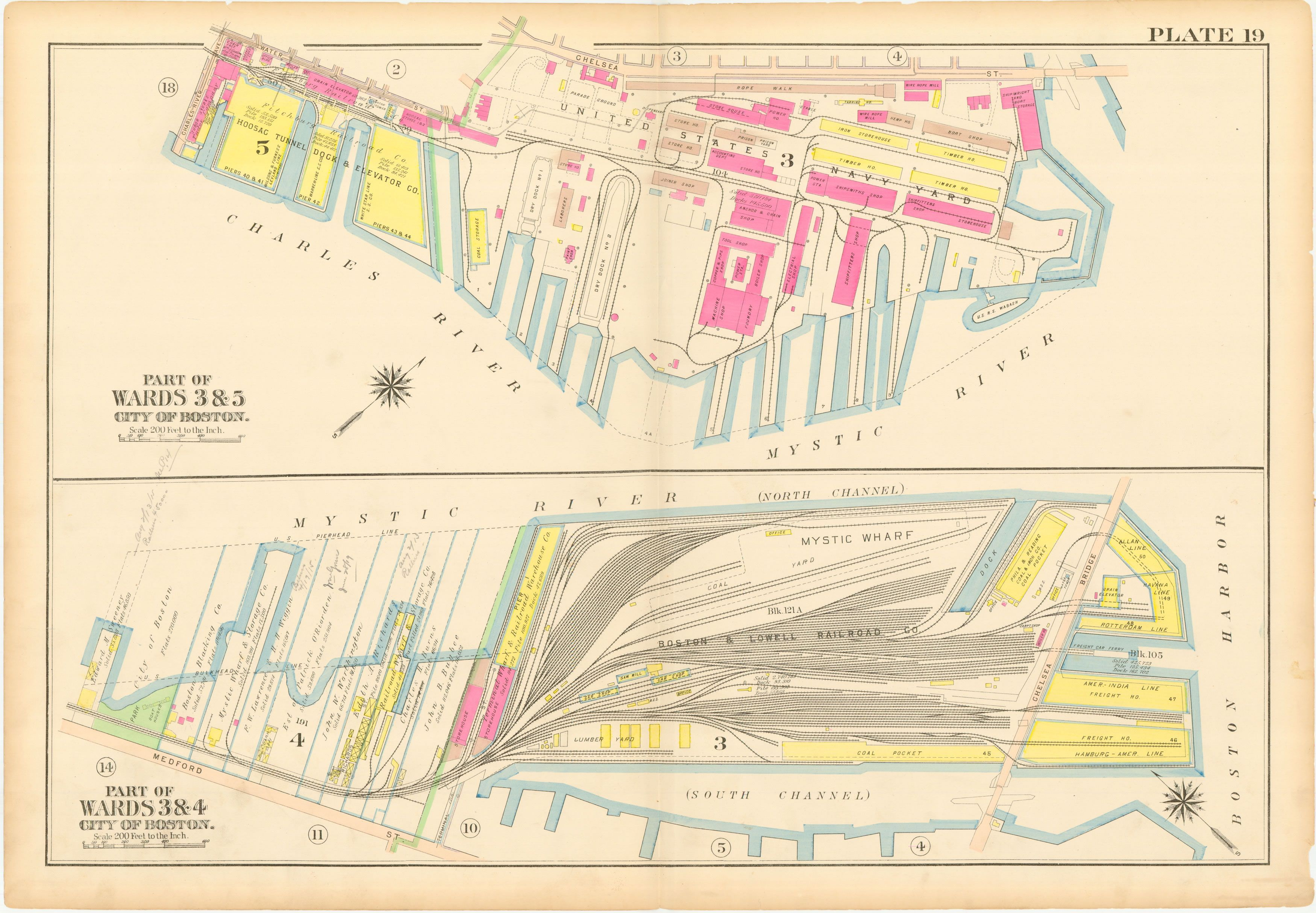 This is a map of the Charlestown Navy Yard and Mystic Wharf in 1912. The map is from an atlas of Charlestown, Massachusetts published by GW Bromley. The map's original size is about 22"x32".